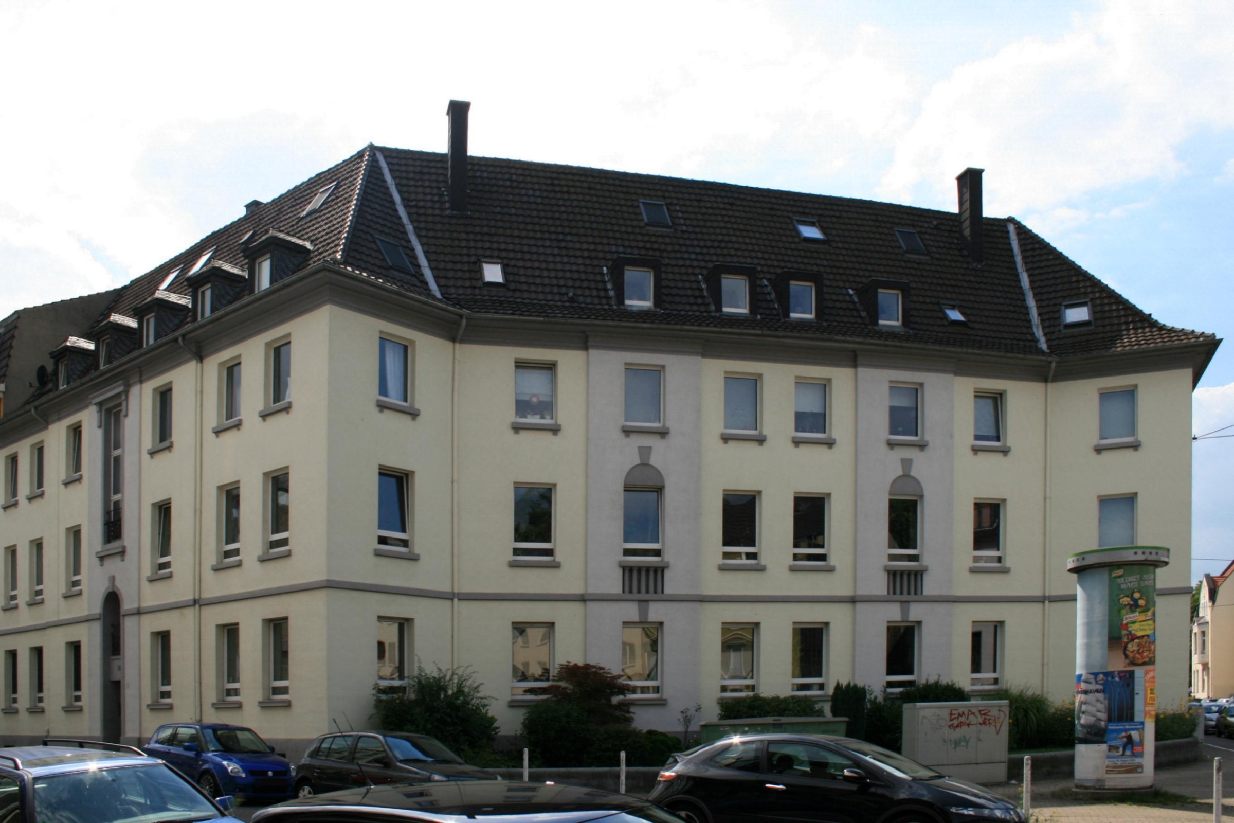 Cultural heritage monument No. B 164 in Mönchengladbach